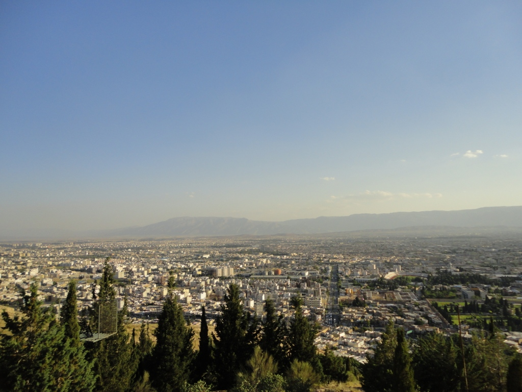 shiraz